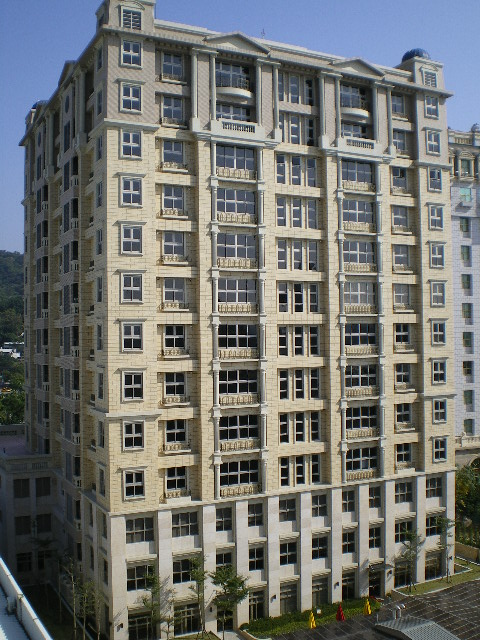 INVENTEC NEW OFFICE IN SHIHLIN , TAIPEI CITY